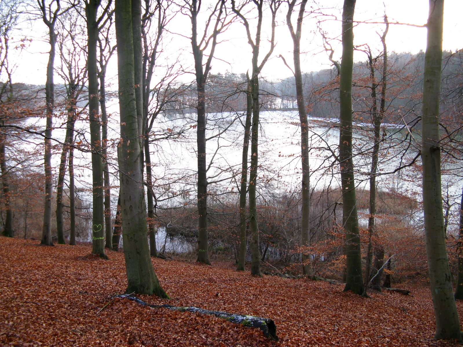 Nothern shore of lake "Neumühler See" in Schwerin, Germany